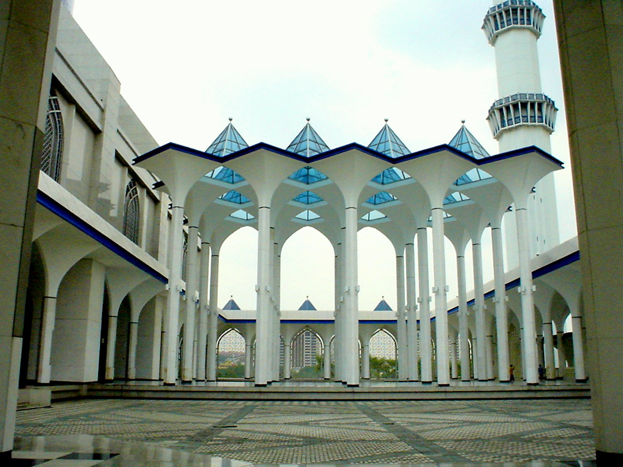 At the hallway (first floor) of the mosque. I took it in 2003.